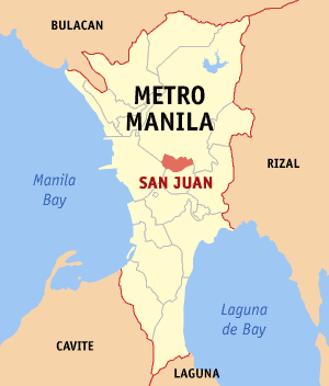 Map of Metro Manila highlighting the location of San Juan, Philippines. Created and copyright (2003) by seav. Released under the GNU FDL.